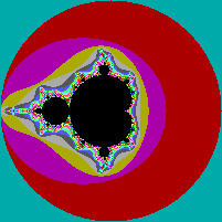 Complex recursive fractal, power 2